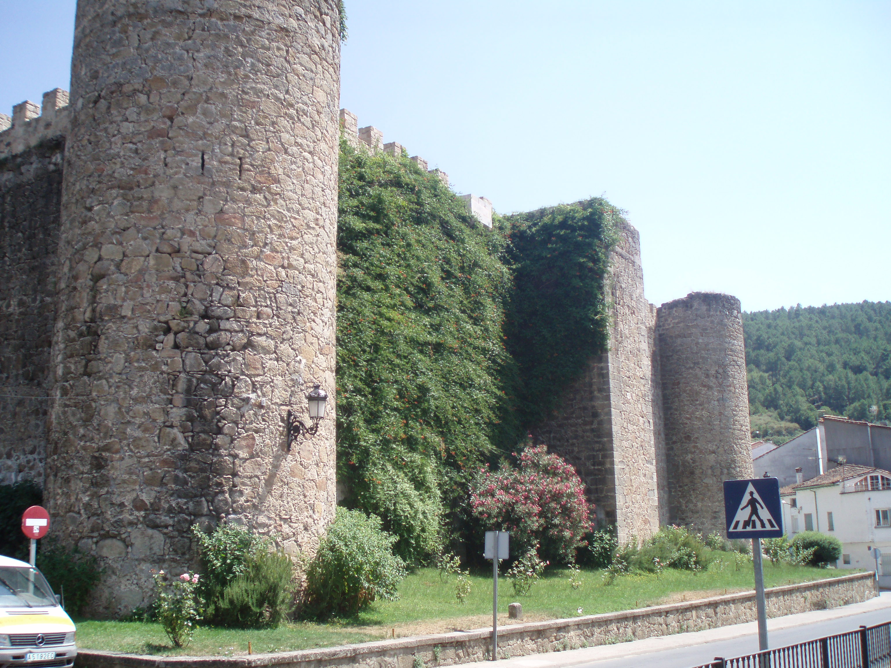 Castle of Arenas de San Pedro, in the province of Ávila. (Spain).